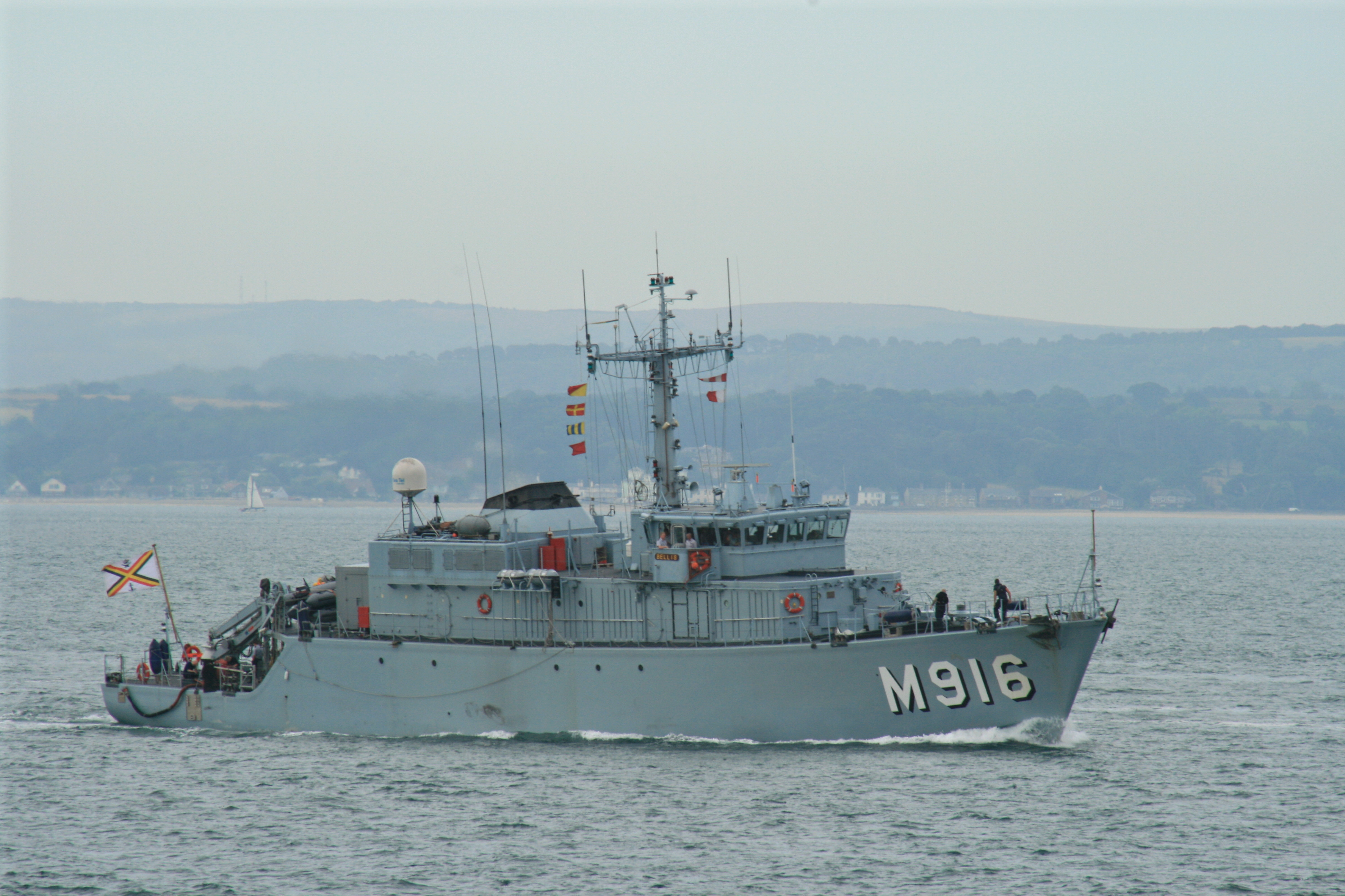 The Belgian minesweeper BNS Bellis at Spithead, inbound to Portsmouth Naval Base on 09 July 2010 in company with the Belgian minesweeper support ship BNS Godetia and the minesweeper BNS Primula. Image uploaded by me User:George.Hutchinson from a photograph taken by and supplied by Brian Burnell. The photograph should be attributed to Brian Burnell in this format. Wikipedia editors are reminded that the copyright remains with the photographer, and that the terms of the Creative Commons Attribution-ShareAlike 3.0 Unported Licence that allow editors to reuse this image apply to Wikipedia editors also, as they do to other reusers of this image. Breaches of the licence terms are not only unlawful, but are also antisocial, in that breaches discourage photographers from making their images freely available to everyone without payment. Non-Wikipedia users are requested to advise Brian Burnell of its use other than on Wikipedia.